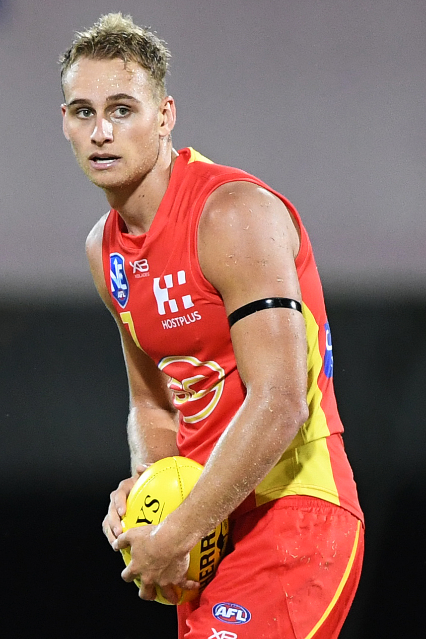 Will Brodie of Gold Coast during the 2019 NEAFL round 5 match between NT Thunder and Gold Coast at TIO Stadium on Saturday, 4 May 2019 in Darwin, Australia.